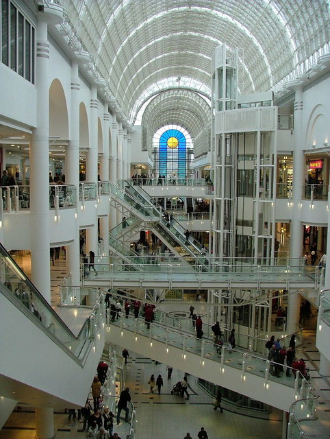 Bentall Shopping Centre